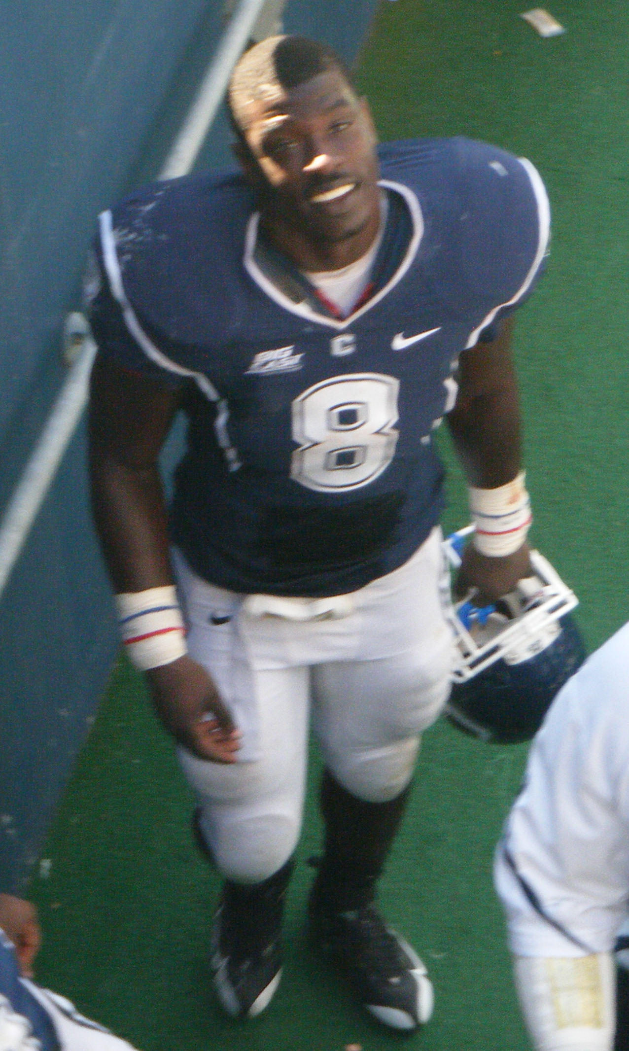 Lawrence Wilson while leaving the field following UConn's win over the Buffalo Bulls.